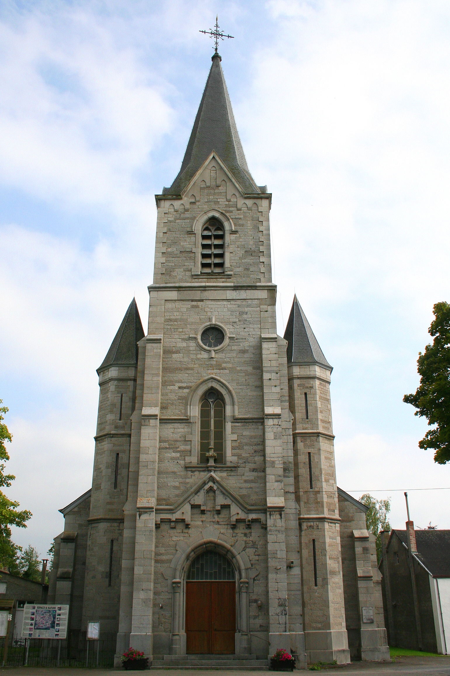 Lomprez (Belgium), the St. Denis’s church (1877-1878).